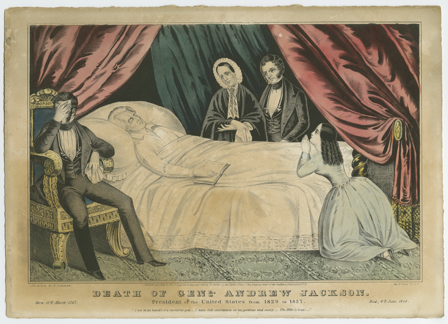 Collection: Cornell University Collection of Political Americana, Cornell University Library Repository: Susan H. Douglas Political Americana Collection, #2214 Rare & Manuscript Collections, Cornell University Library, Cornell University Title: Death of Genl. Andrew Jackson Political Party: Democratic Date Made: 1845 Measurement: Print: 10 x 14 in.; 25.4 x 35.56 cm Classification: Prints Persistent URI: There are no known U.S. copyright restrictions on this image. The digital file is owned by the Cornell University Library which is making it freely available with the request that, when possible, the Library be credited as its source.